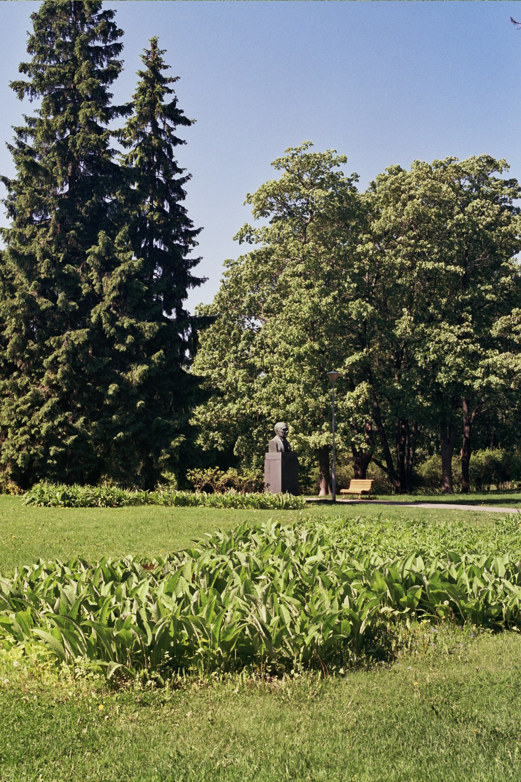 A view from Eteläpuisto ("South Park") in Tampere, Finland. The statue seen in the photo is the bust of industrialist Fabian Klingendahl (1852–1937).